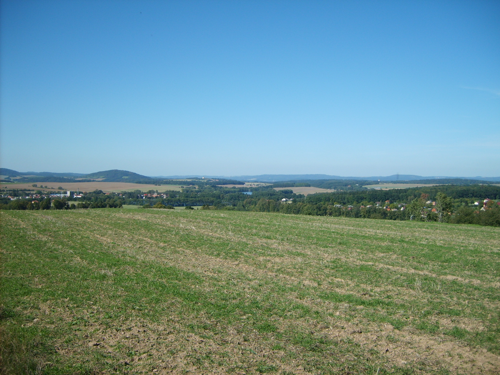 General view to countryside of Benešov District.